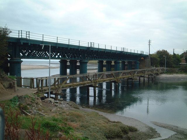 Railway viaduct and footbridge at Laytown, Co. Meath Viaduct built 1896-97 by Cleveland Bridge & Engineering Co. and footbridge probably at same time.